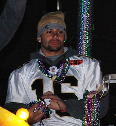 Picture of Lance Moore at the Super Bowl Victory Parade in New Orleans, La February 9th, 2010.